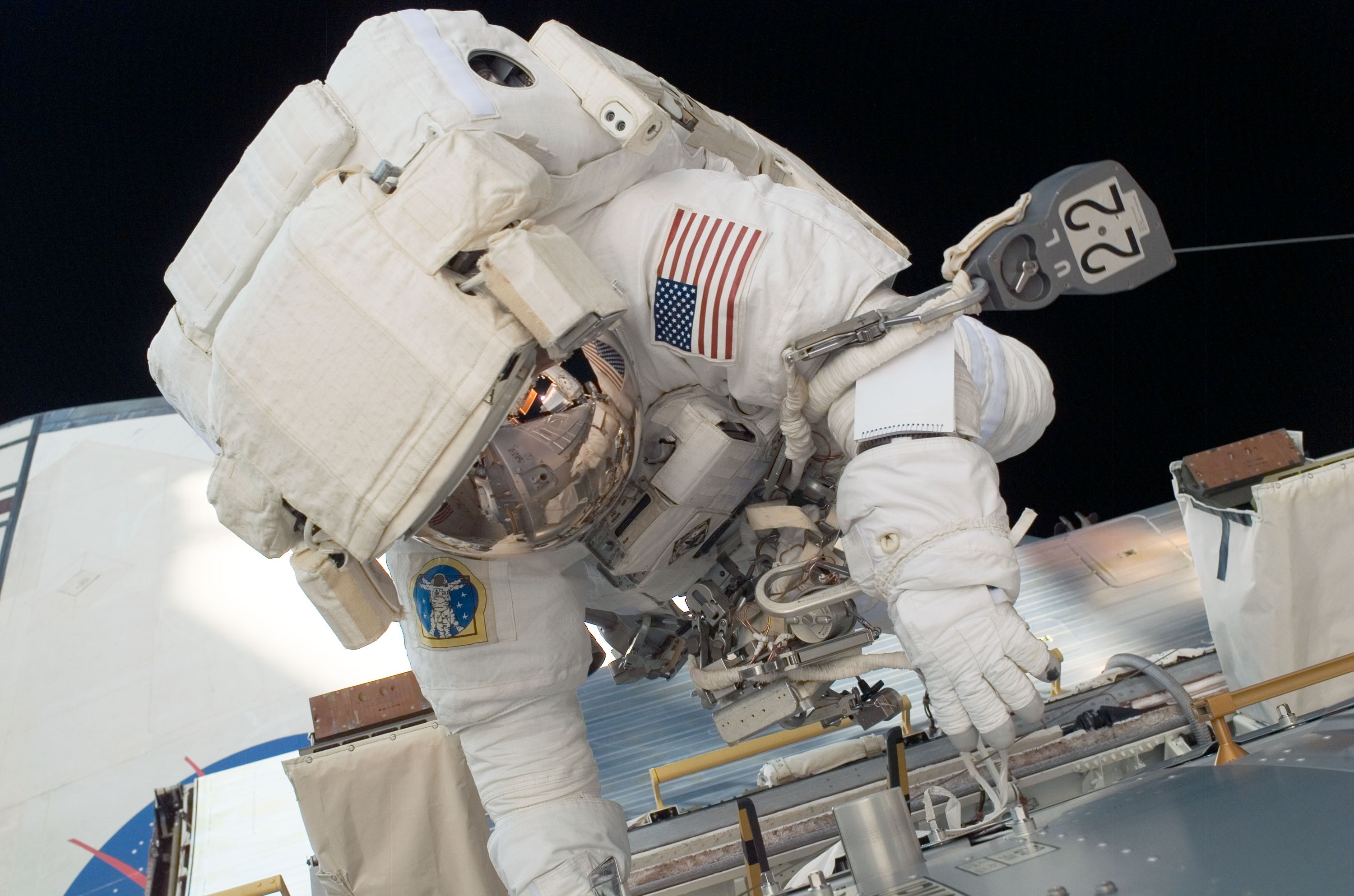 Astronaut Ron Garan, STS-124 mission specialist, participates in the mission's first scheduled session of extravehicular activity (EVA) as construction and maintenance continue on the International Space Station. During the six-hour, 48-minute spacewalk, Garan and astronaut Mike Fossum (out of frame), mission specialist, loosened restraints holding the Orbiter Boom Sensor System in its temporary stowage location on the space station's starboard truss, prepared the Kibo Japanese Pressurized Module for its installation to the space station, demonstrated cleaning techniques for the Solar Alpha Rotary Joint's (SARJ) race ring, and installed a replacement SARJ Trundle Bearing Assembly.